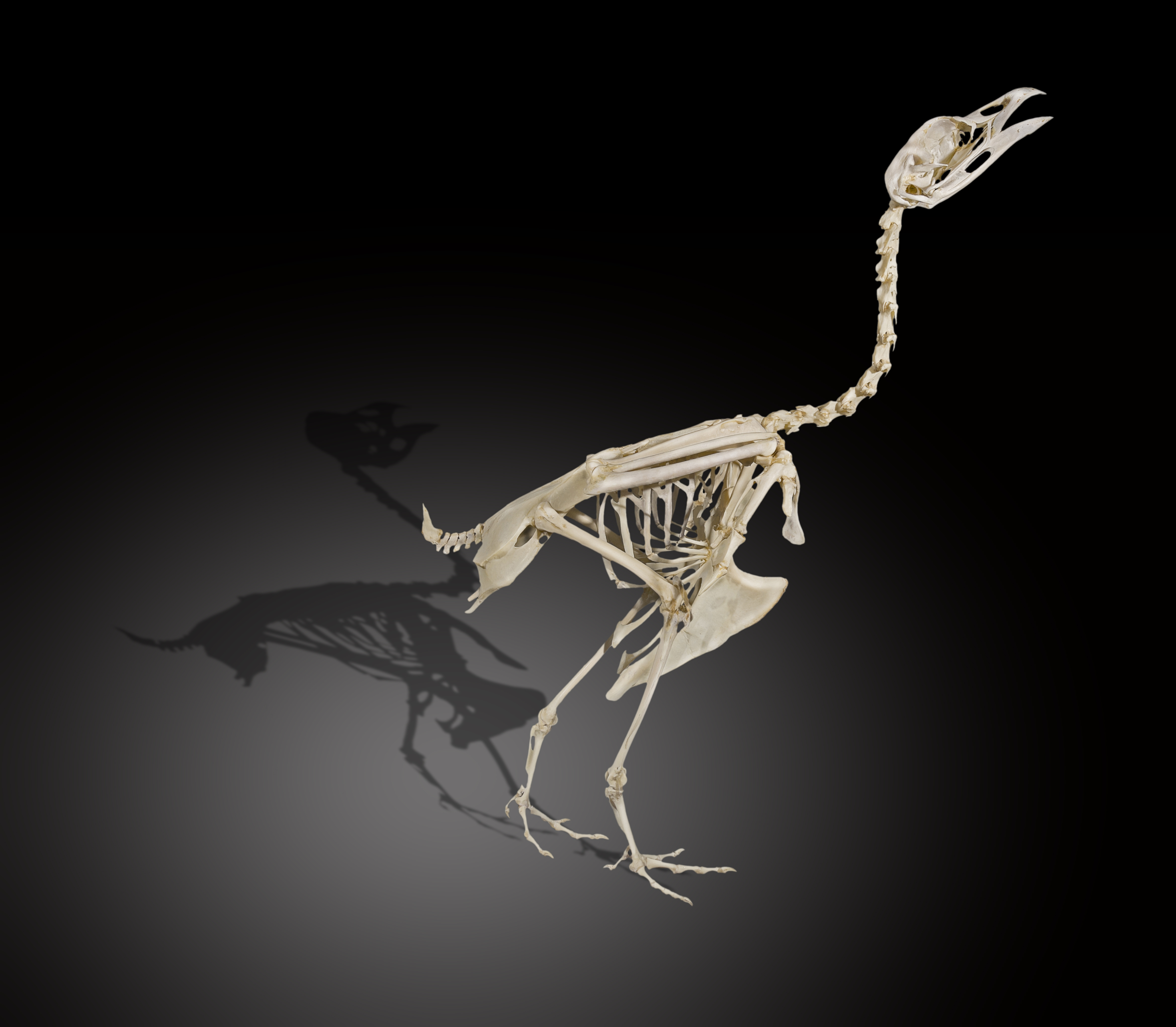 Western Capercaillie, collected by French National Office for Hunting and Wildlife. Locality: Haute-Garonne, France.